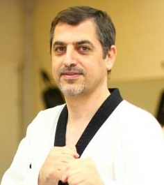 Samer Kamal - 8th Dan Taekwondo